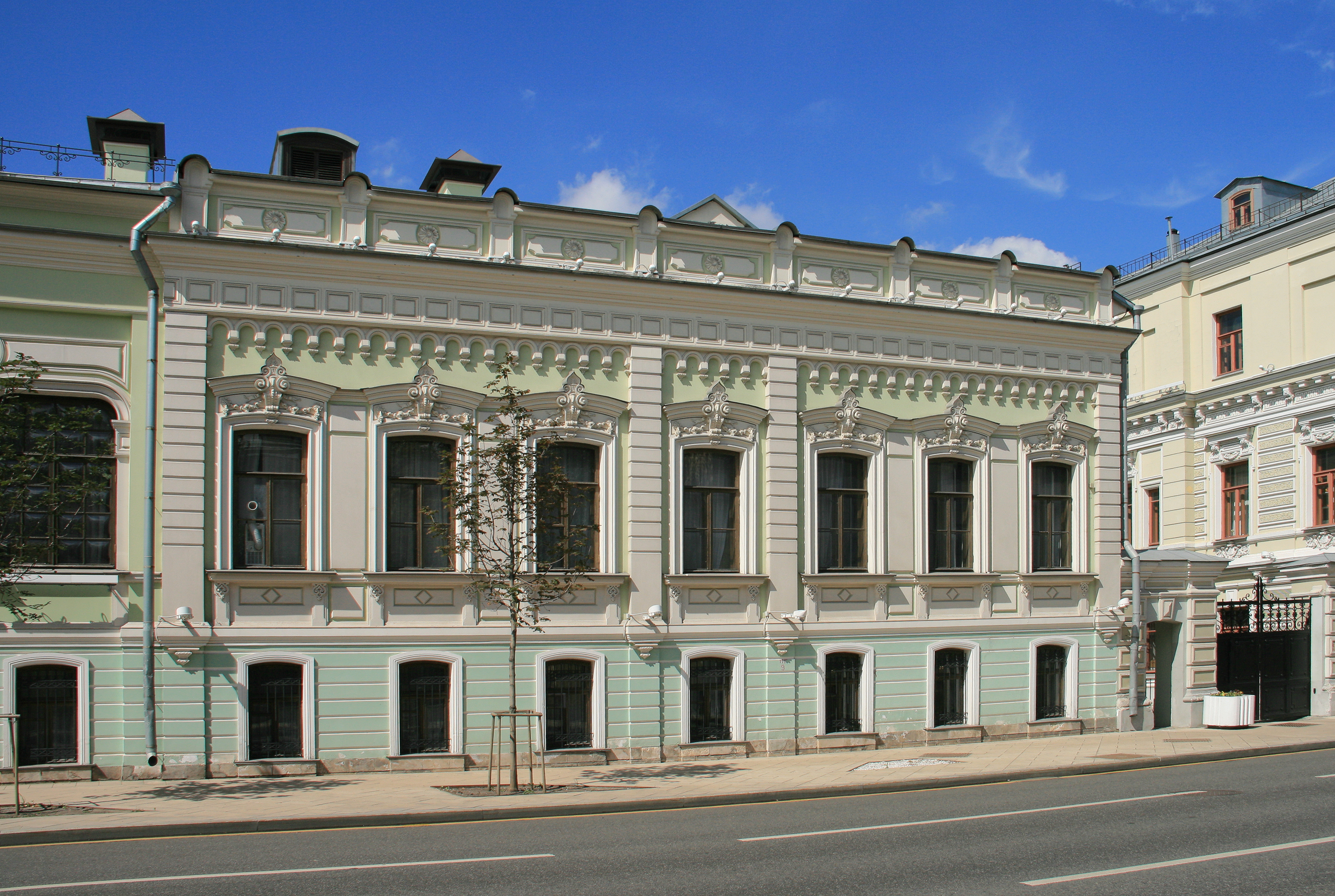 Hospital in Marfo-Mariinsky Convent, Bolshaya Ordynka Street 34 str.3. Moscow, Russia